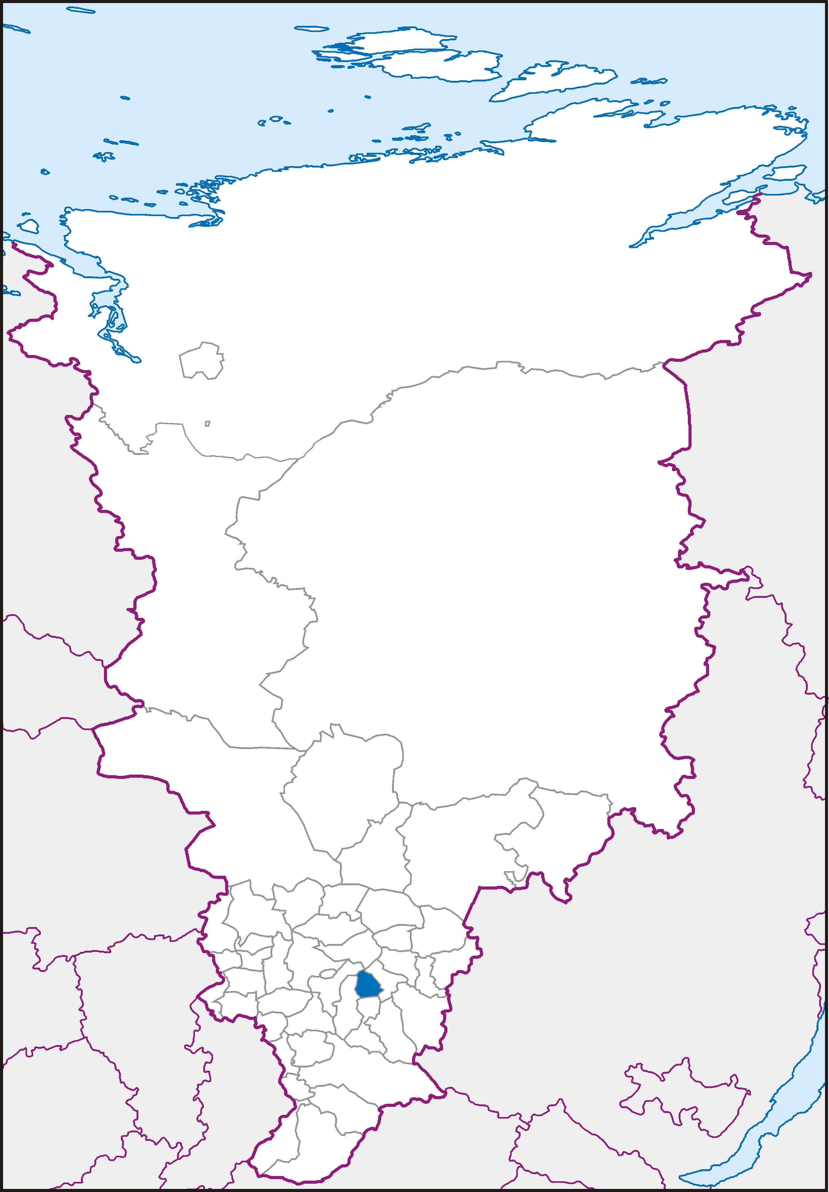 Map of Krasnoyarsk Krai in Albers Equal-Area Conic projection (Central Meridian = 95° E)